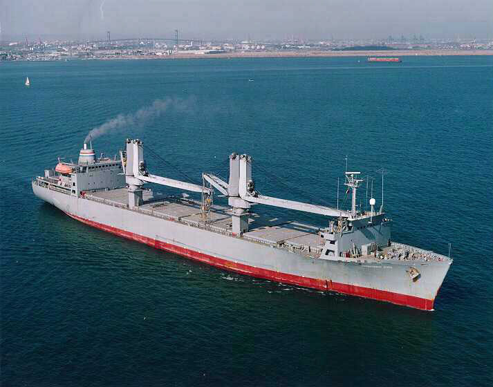 Aerial photo of the United States Military Sealift Command ship SS Cornhusker State (T-ACS-6)